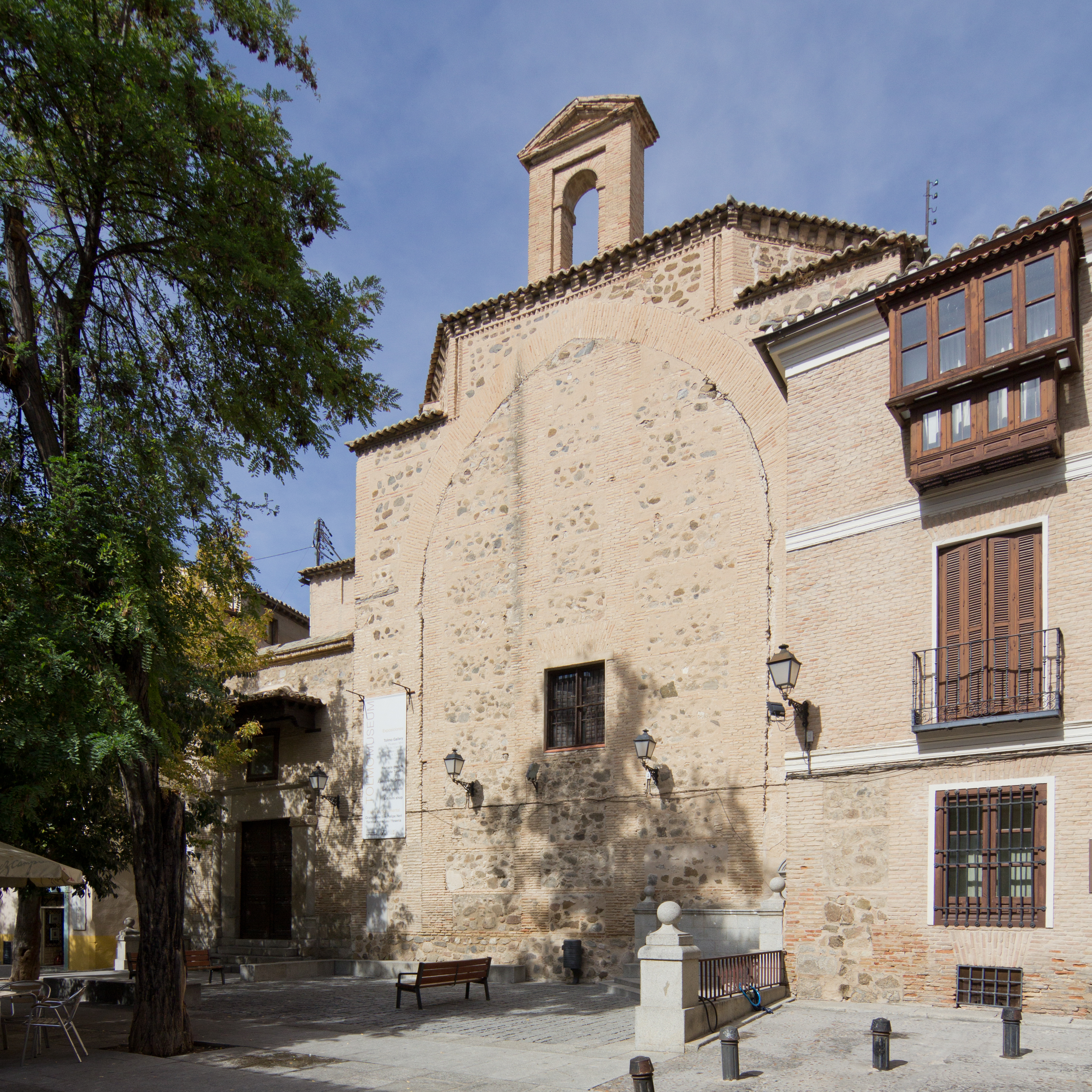 Oratory of St. Felipe Neri, Toledo, Spain.